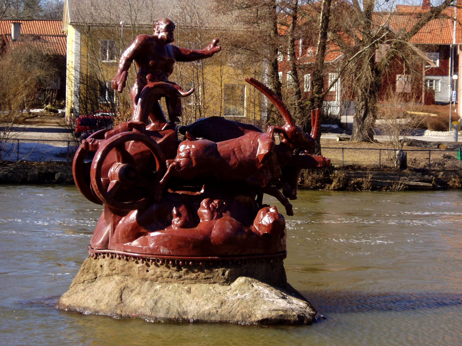 Tors bockar ("Thor's goats"), sculpture by Allan Ebeling in Torshälla, Sweden